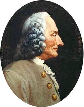 Depicted person: Jean-Philippe Rameau (1683–1764), French composer and music theorist of the Baroque era